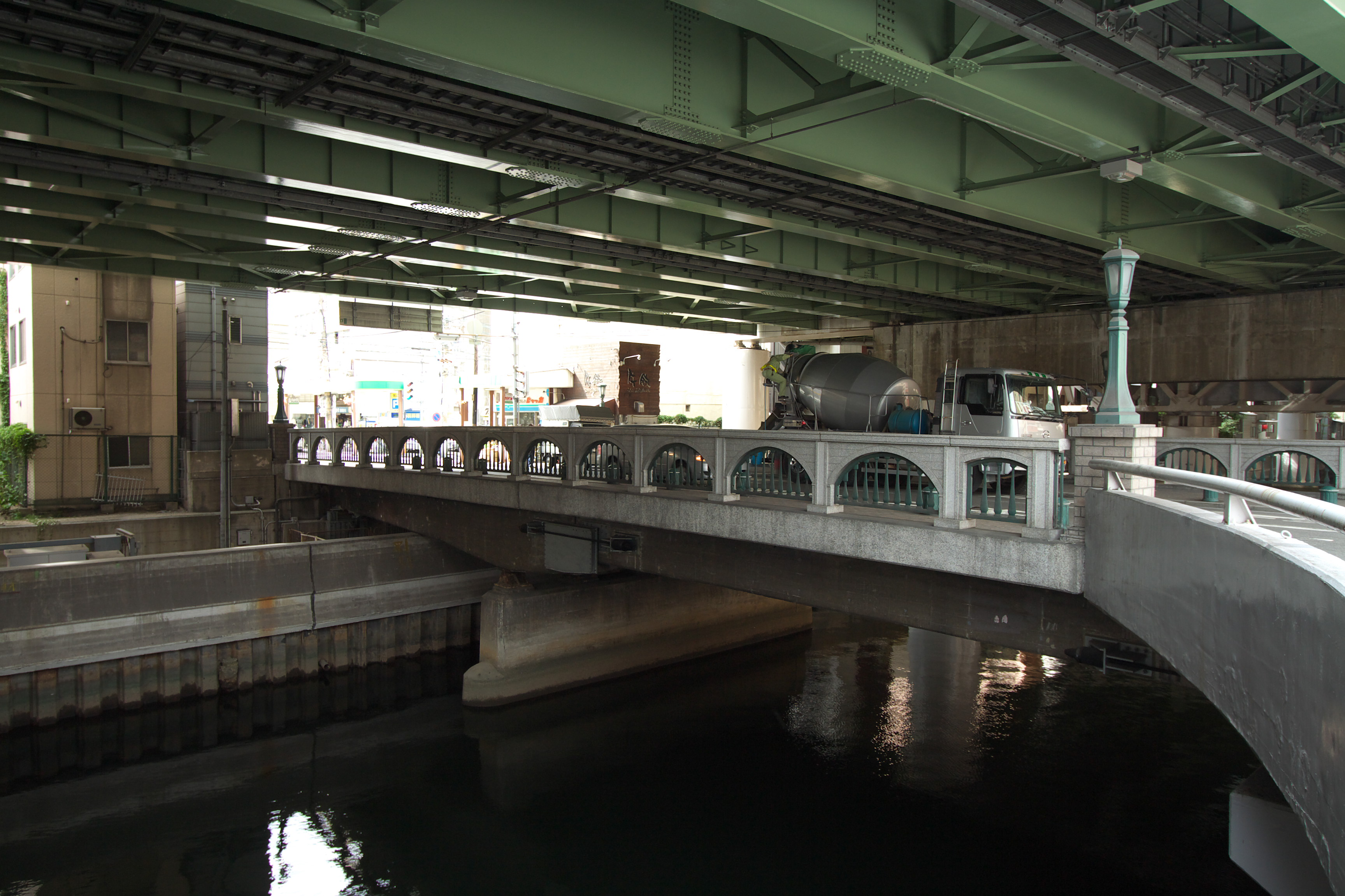 Kyūhōjibashi Bridge (Osaka City, JAPAN)